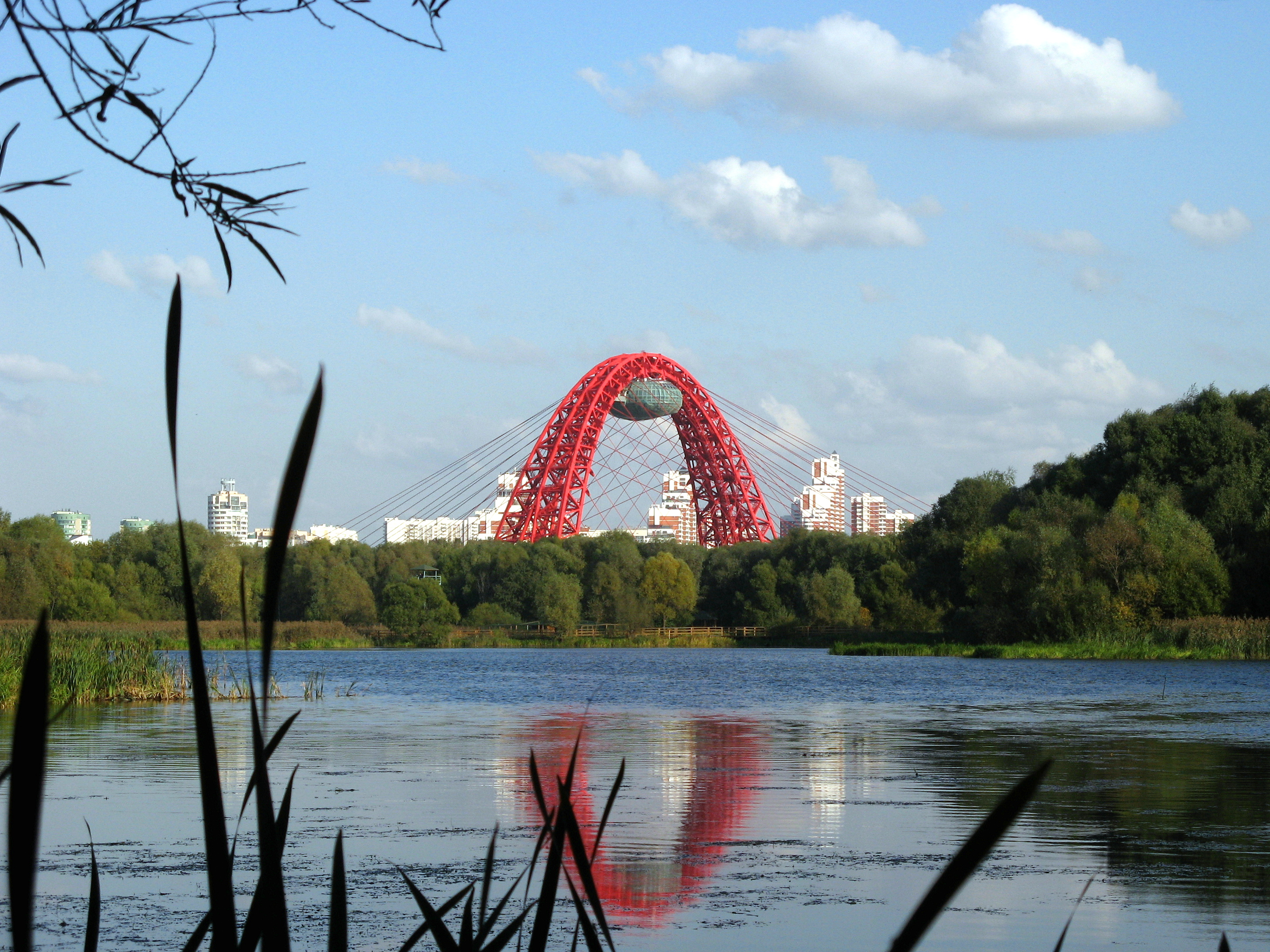 Zhivopisny Bridge in Moscow (September 2008)